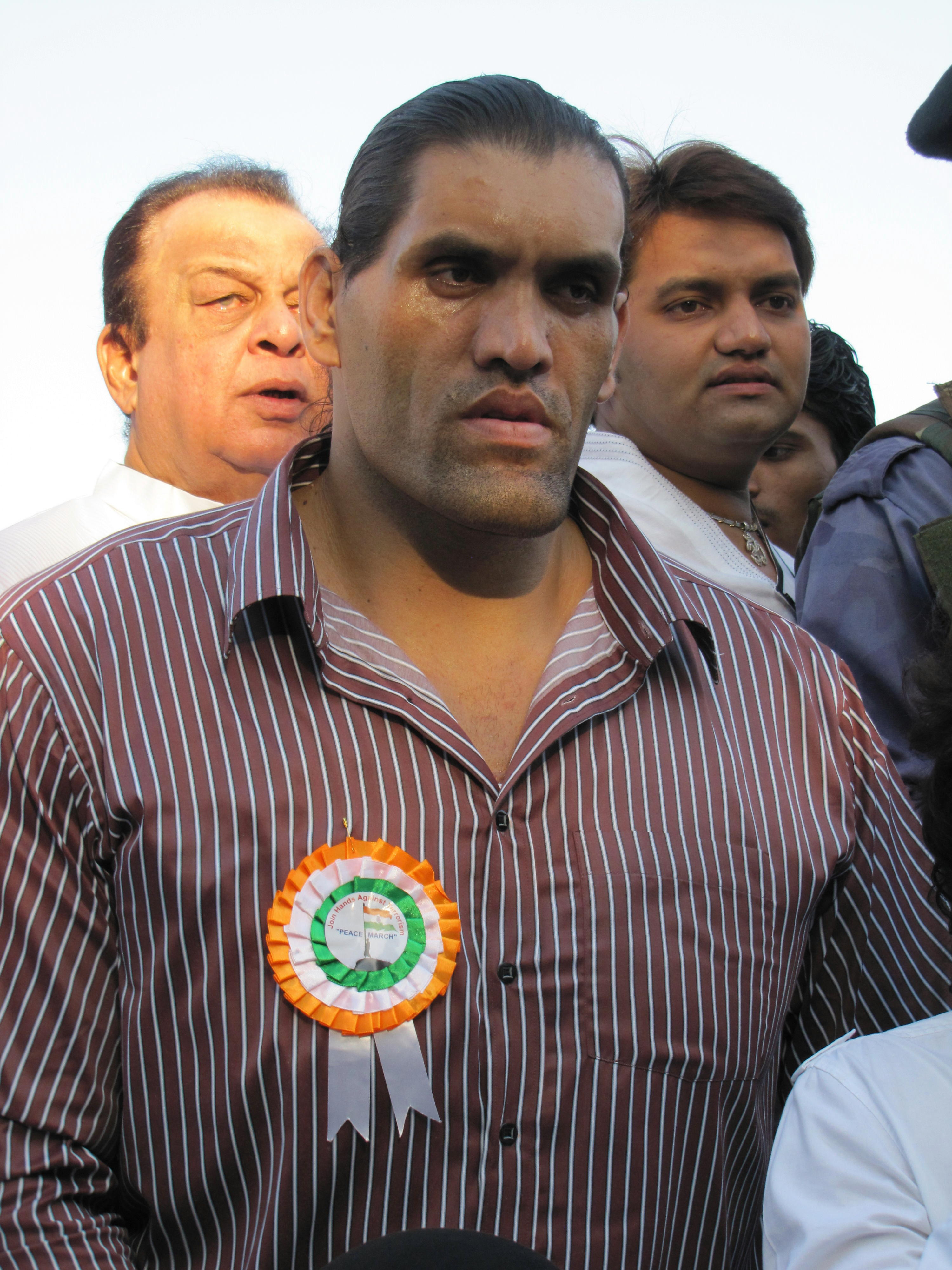 The Great Khali(Dalip Singh Rana) during peace rally conducted in Mumbai on 20th November, 2011 at 7:30AM